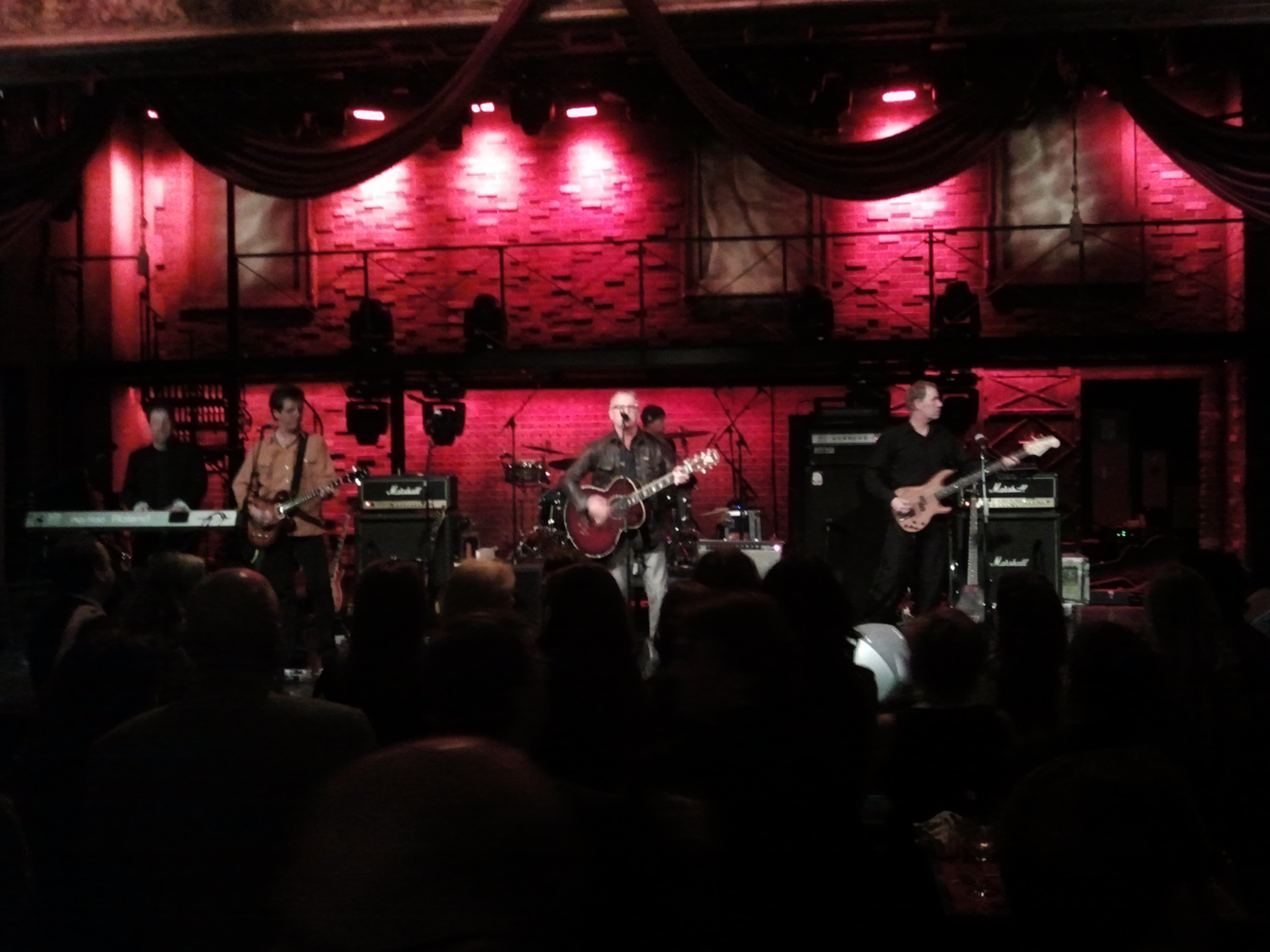 At the EMI Music Canada Party